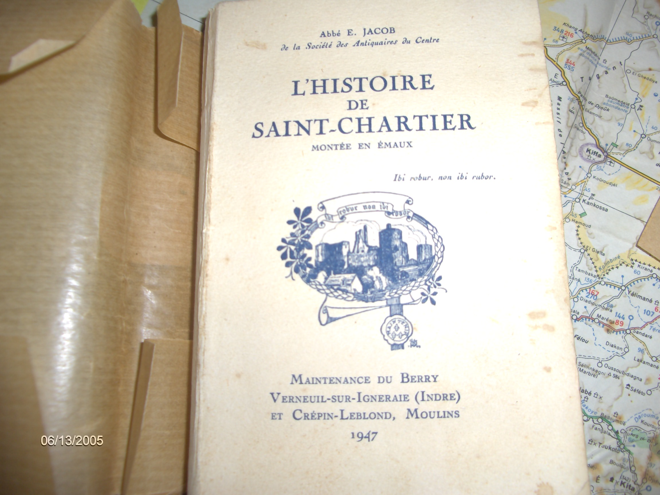 cover page of the book "history of St Chartier